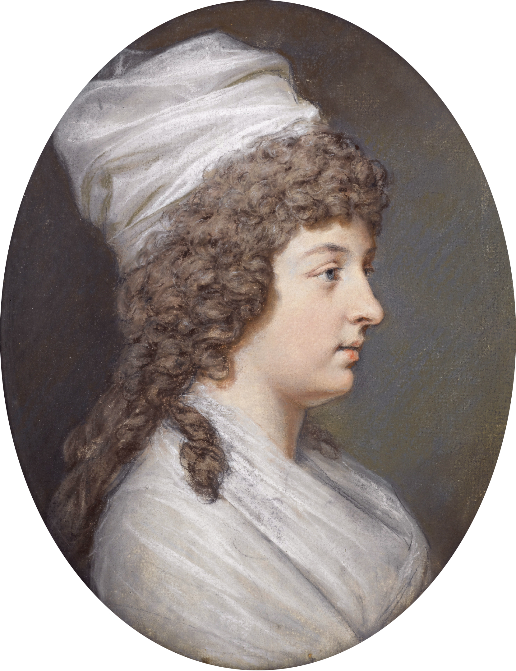 Charlotte, Duchess of Albany, daughter of Prince Charles Edward Stuart